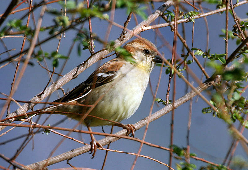 Russet Sparrow (Passer rutilans) in Kullu District of Himachal Pradesh, India. Generally seen (keeps in flocks outside breeding season- April to August) in summers from 4000 ft. to 9000 ft. in light forests & near hill villages & human habitation, taking place of House Sparrows, where they do not occur. It has sides of throat & center of belly pale yellow. Taken at Guna Pani (8500 ft.) in Himachal during Sar Pass Trek in May'07.